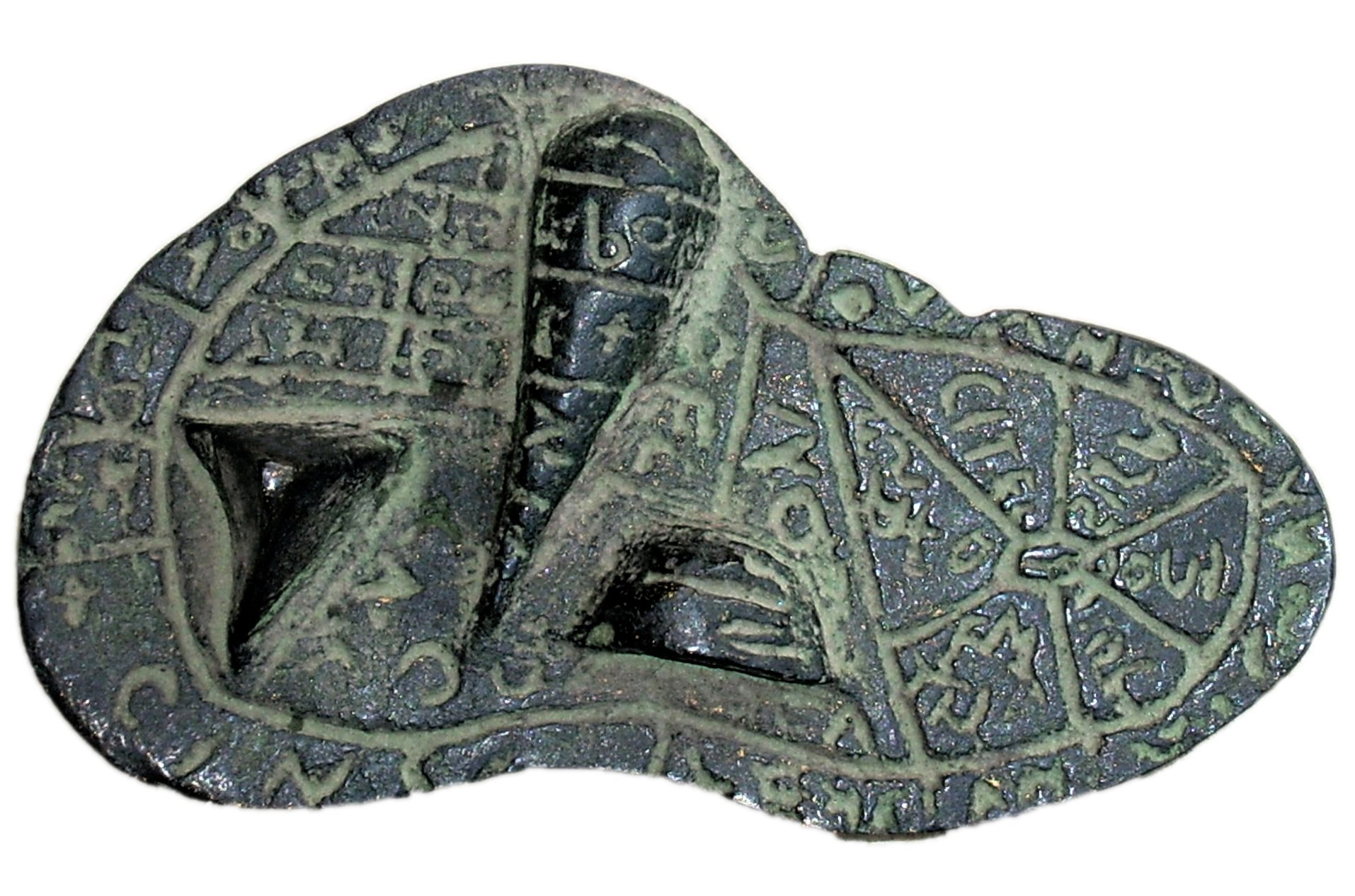 Liver of Piacenza, Mantik.